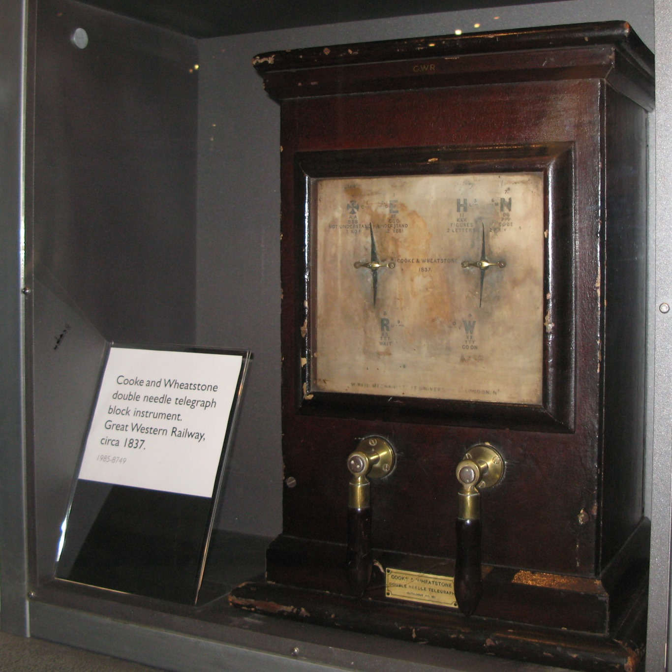 An early double-needle telegraph of the Cooke and Wheatstone pattern used on the pioneering telegraph routes of the Great Western Railway in England. On display at the National Railway Museum.